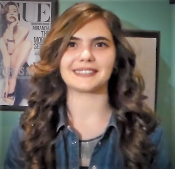 Lara Debbane, Miss Egypt, responds to Facebook criticisms to Al Mal News and Mohammed Ragab.